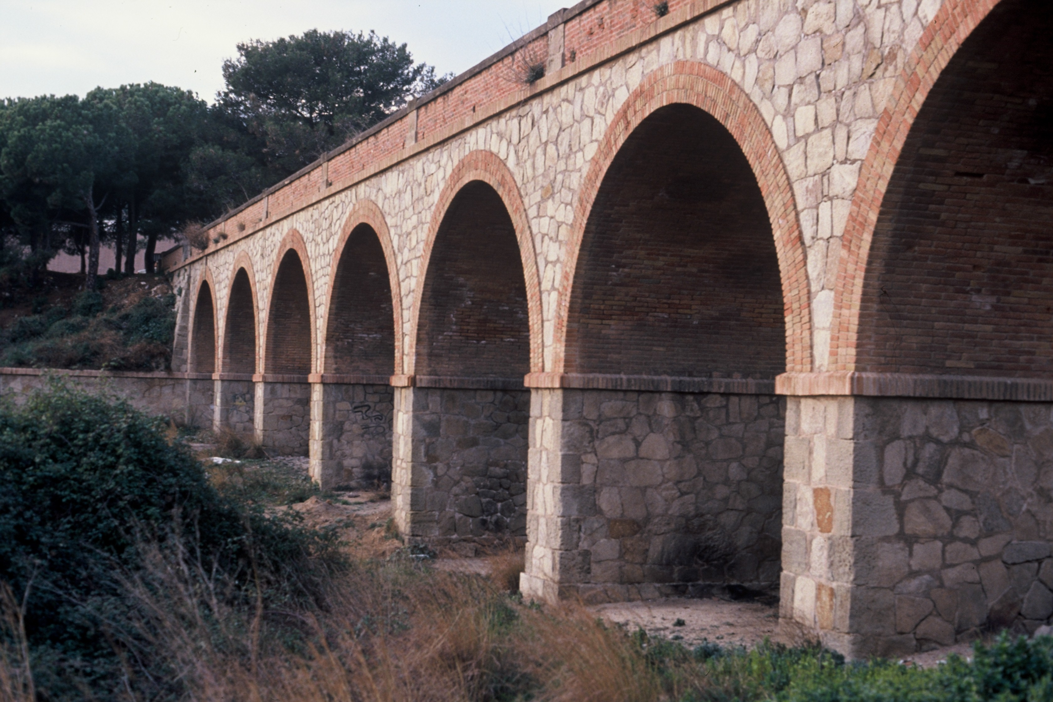 Mas Ram bridge